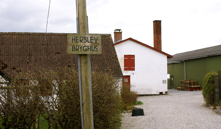 Herslev Bryghus outside Roskilde is a family owned micro-brewery established i the small village Herslev 10 km west of Roskilde